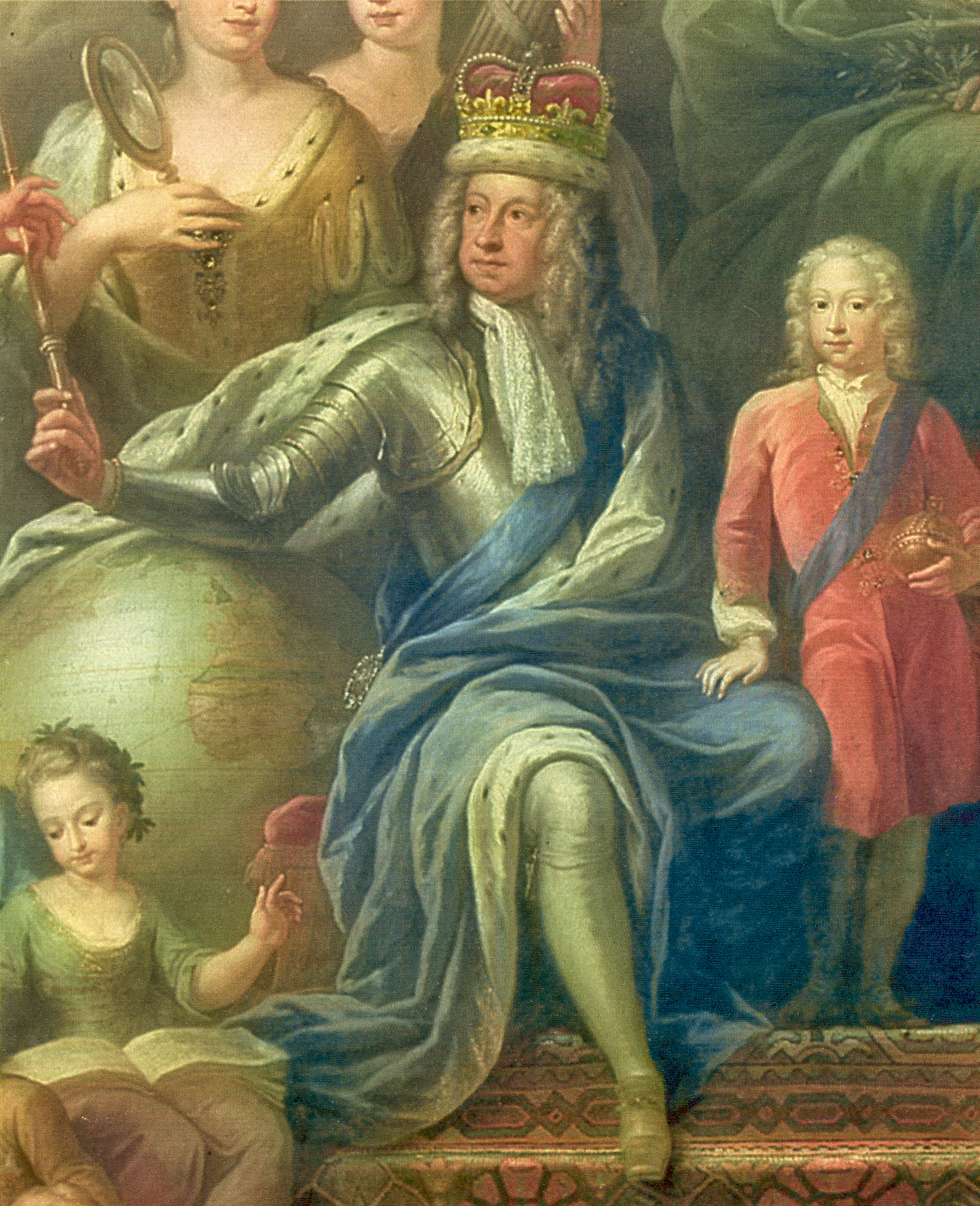 Portrait of George I (seated) depicted on the West Wall of the Painted Hall, Greenwich